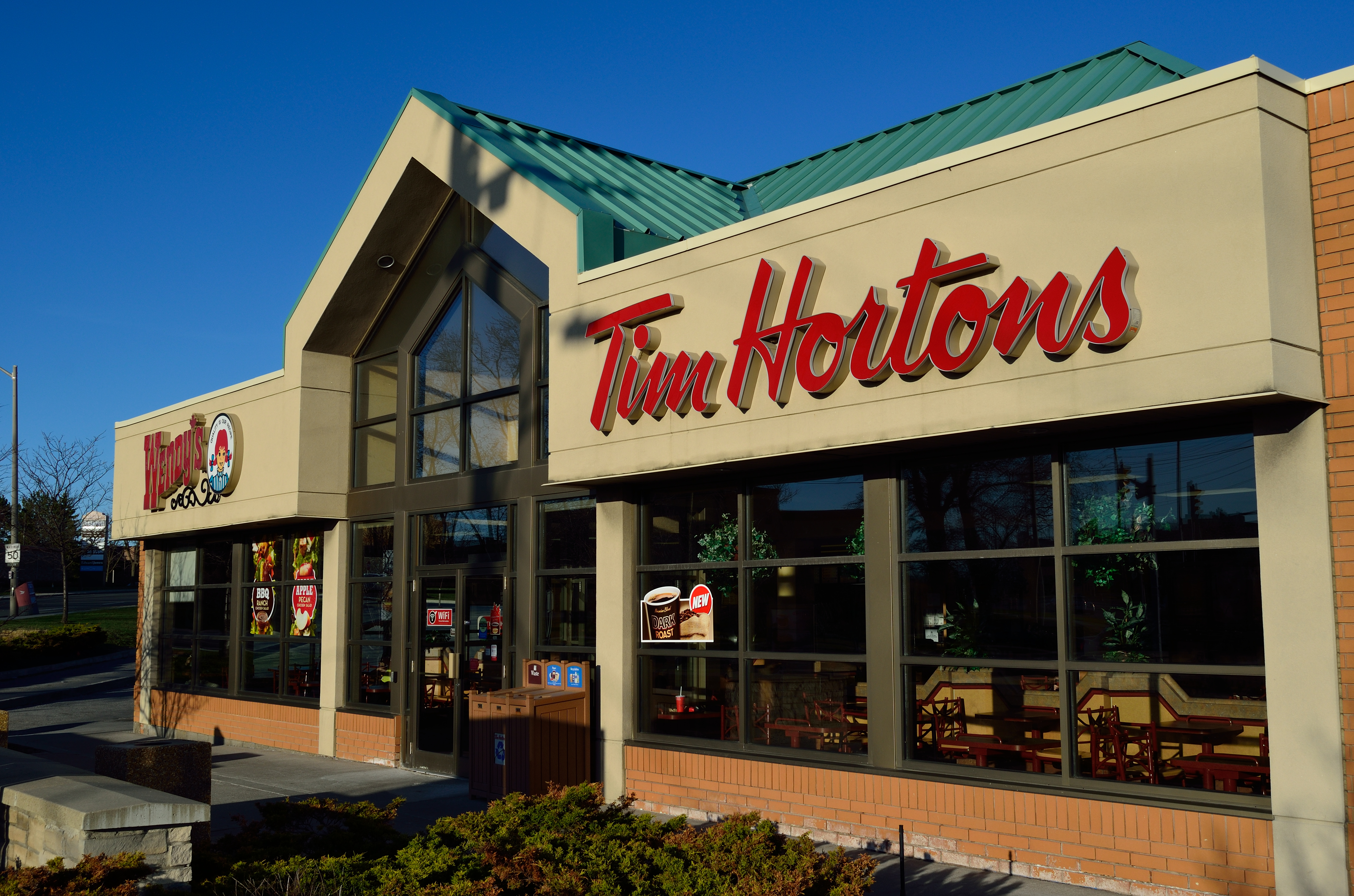 Tim Hortons in Markham